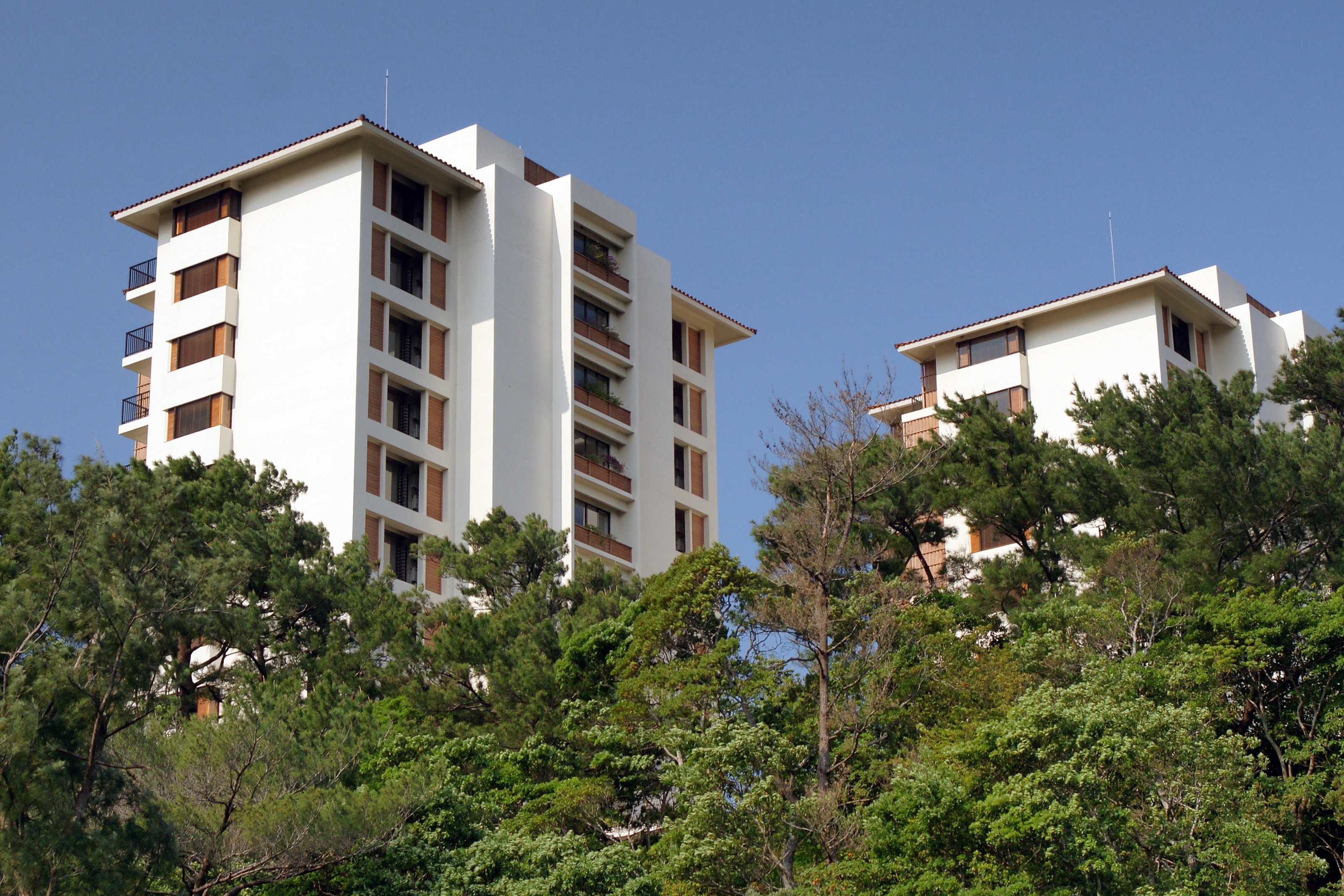 The Atta Terrace, Onna, Okinawa prefecture, Japan